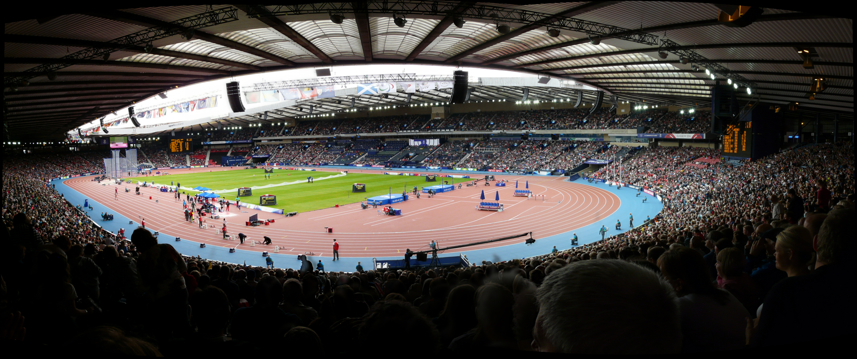 Hampden Park Glasgow Commonwealth Games Day 7 Athletics Morning Session Wednesday 30th July 2014